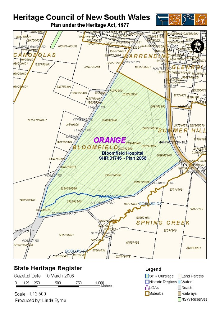 Bloomfield Hospital, Orange: SHR Plan 2066